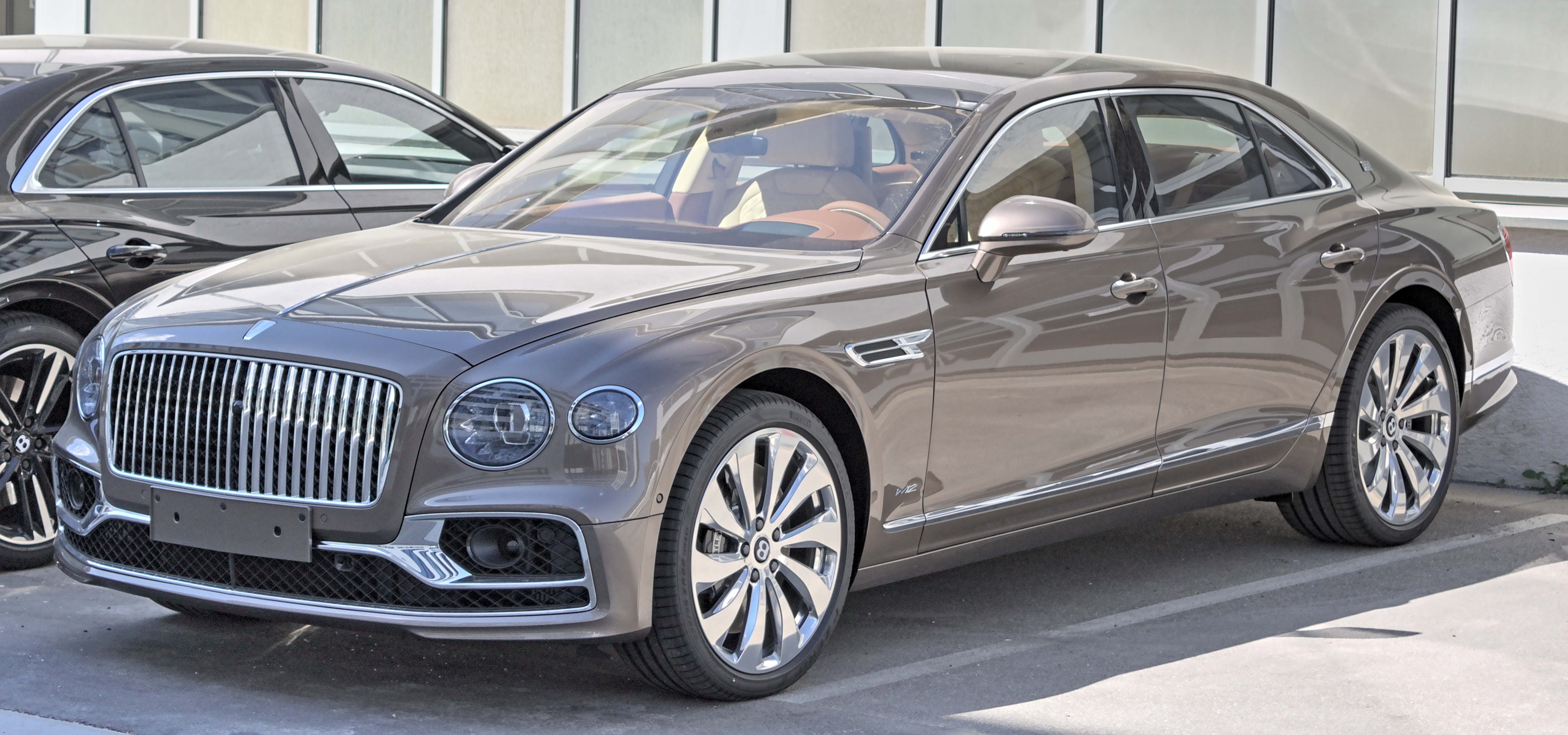 Bentley_Flying_Spur_(2019) in Böblingen